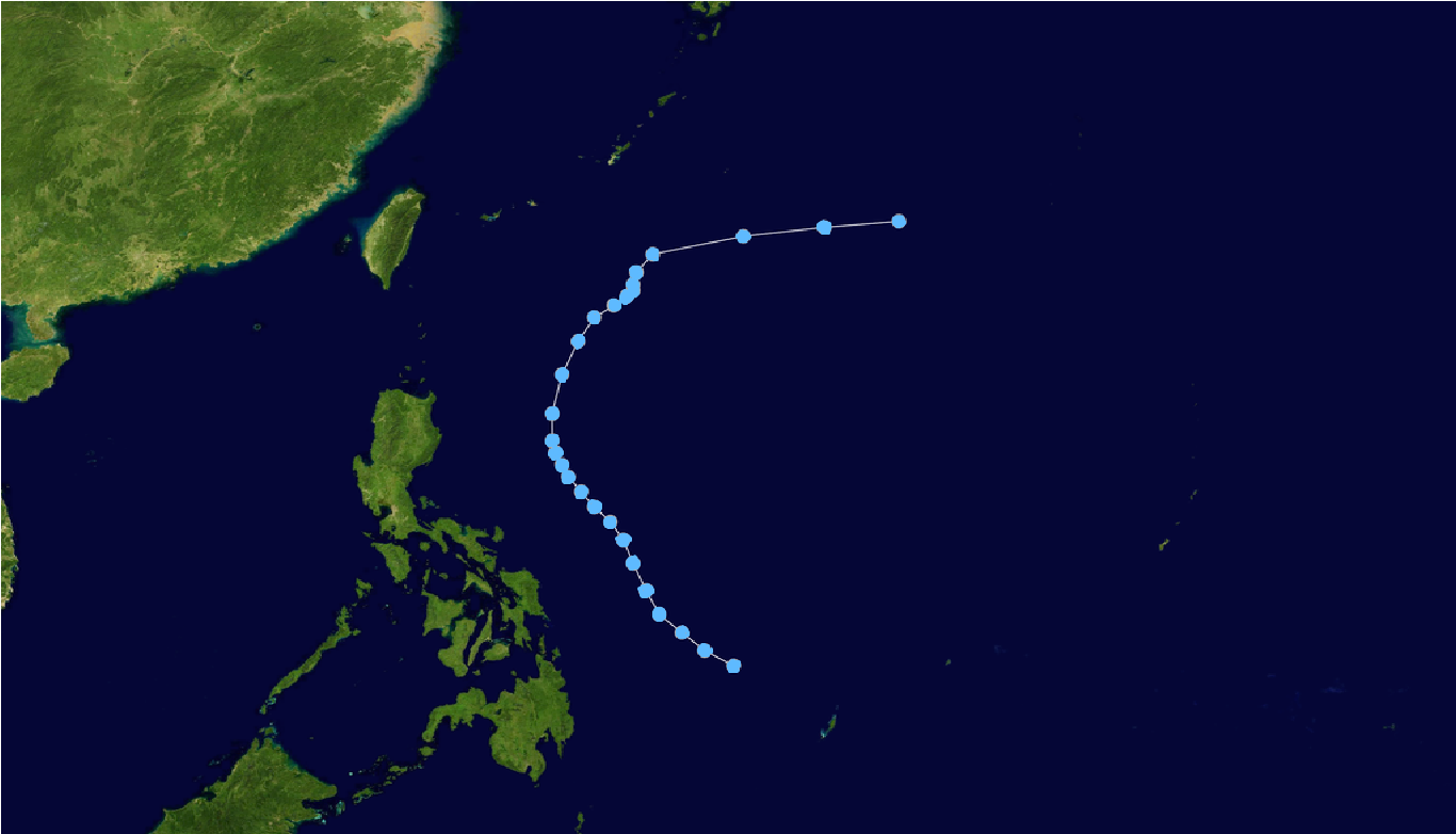 Track of 22-W from November 7, 1939 through November 14, 1939. Due to the age at witch this storm was observed from, one cannot rely on this track to be 100% accurate, but rather just a reference as to where the storm happened and the relative direction it traveled.